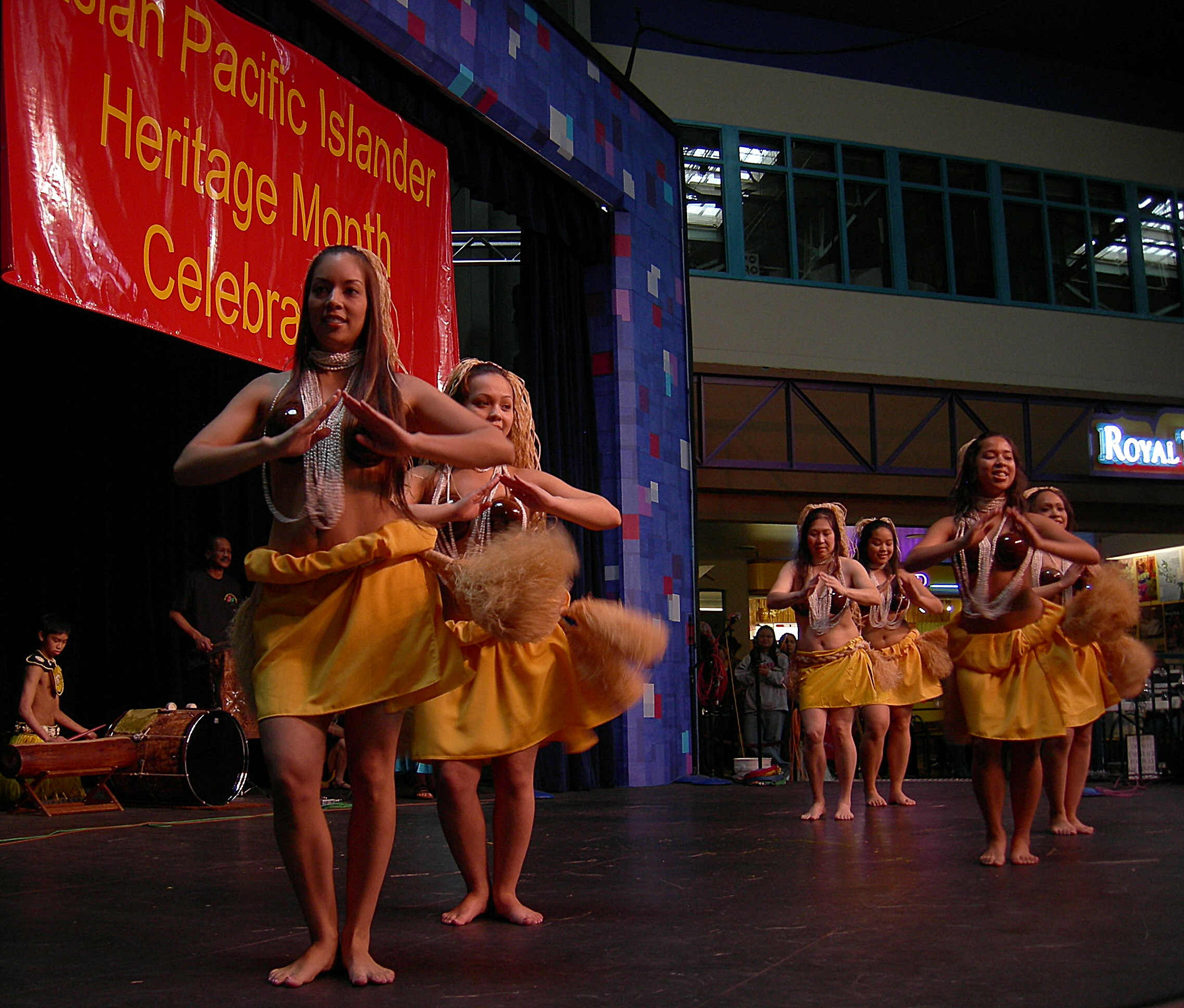 Dancers of hula hālau Ke Liko A`e O Lei Lehua perform at Center House, Seattle Center, as part of Festál's API (Asian Pacific Islander) Heritage Month Festival. The pictures of this event have generally undergone slight enhancement (sharpening, color adjustments) with Picture Publisher.